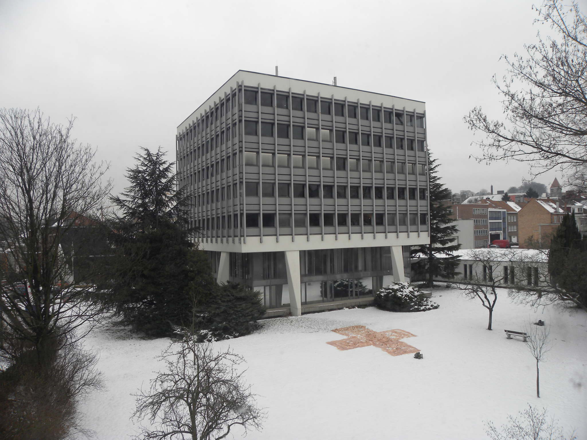 Belgian Red Cross, French-speaking aisle, Headquarters, rue de Stalle in Brussles with Red Cross coloured in snow. January 2010.